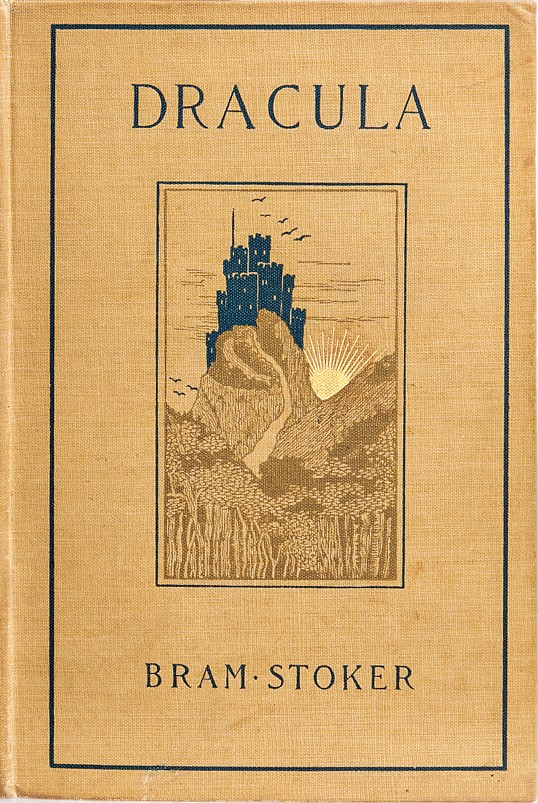 Cover of Doubleday and McClure, First American edition, Dracula